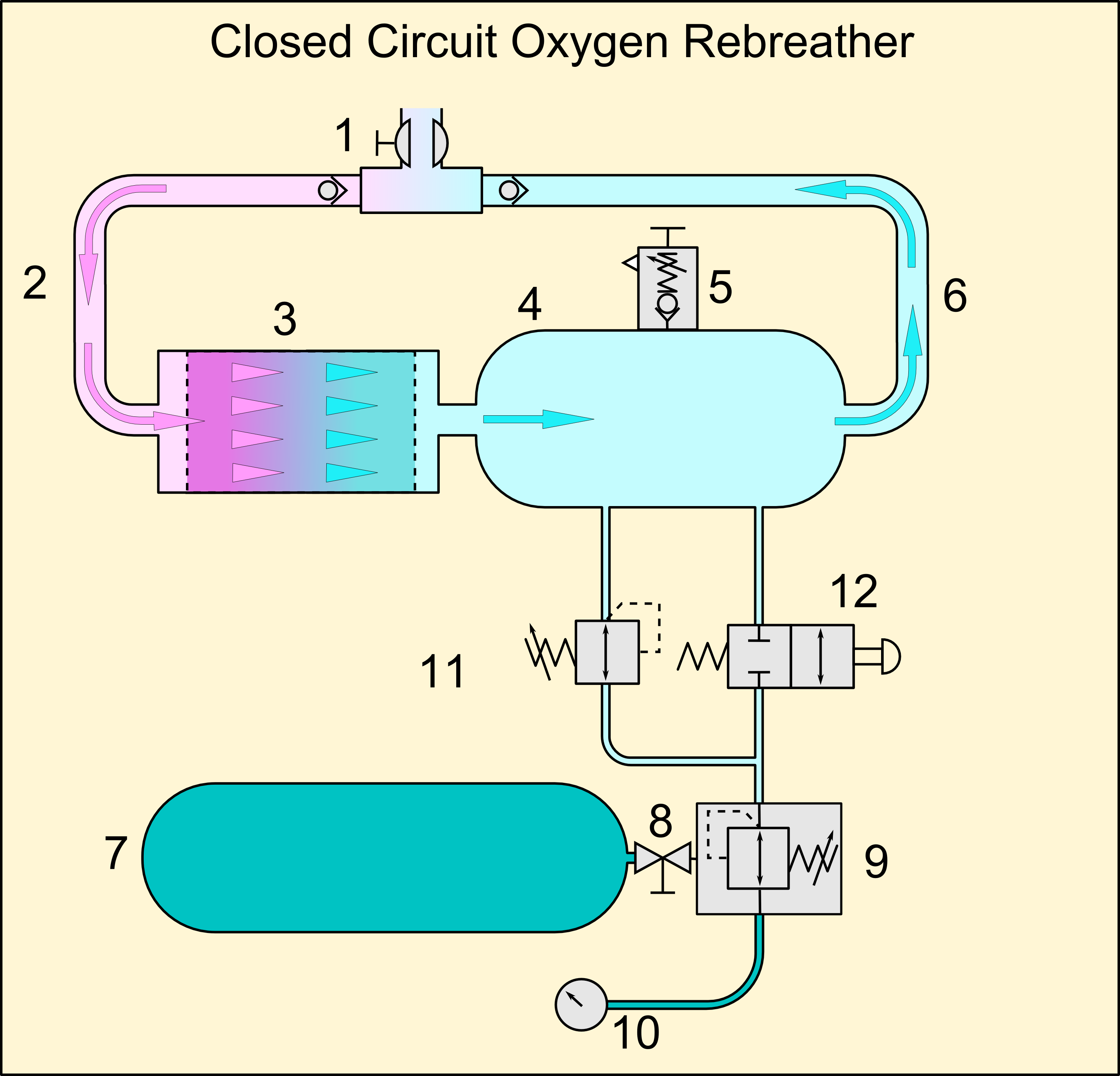 Schematic diagram of a closed cirduit oxygen rebreather with a loop configuration and axial flow scrubber 1 Dive/surface valve with loop non return valves 2 Exhaust hose 3 Scrubber (axial flow) 4 Counterlung 5 Ovepressure valve 6 Inhalation hose 7 Breathing gas storage cylinder 8 Cylinder valve 9 Regulator first stage 10 Submersible pressure gauge 11 Automatic make-up valve 12 Manual bypass valve